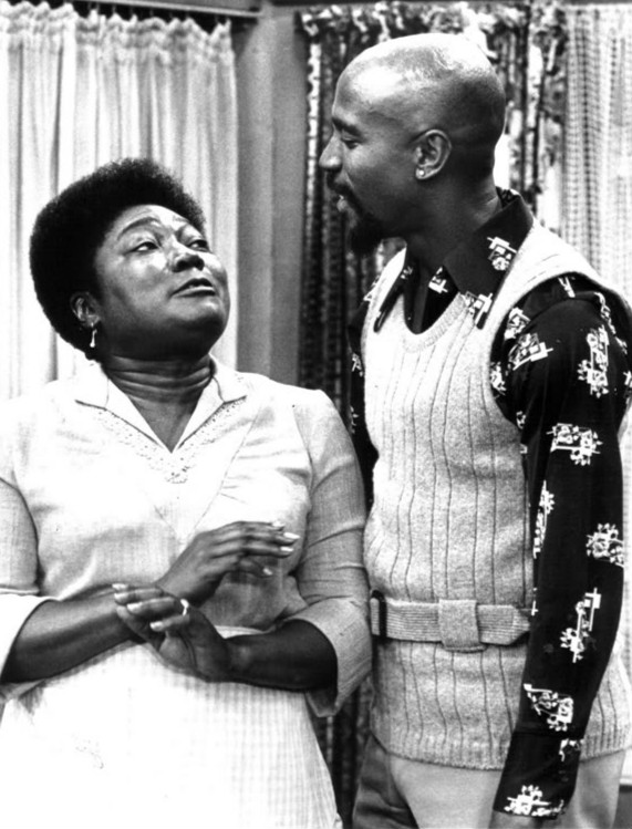 Photo from the television program Good Times. Pictured are Esther Rolle as Florida Evans and Lou Gossett guest-starring as her brother, Wilbert.